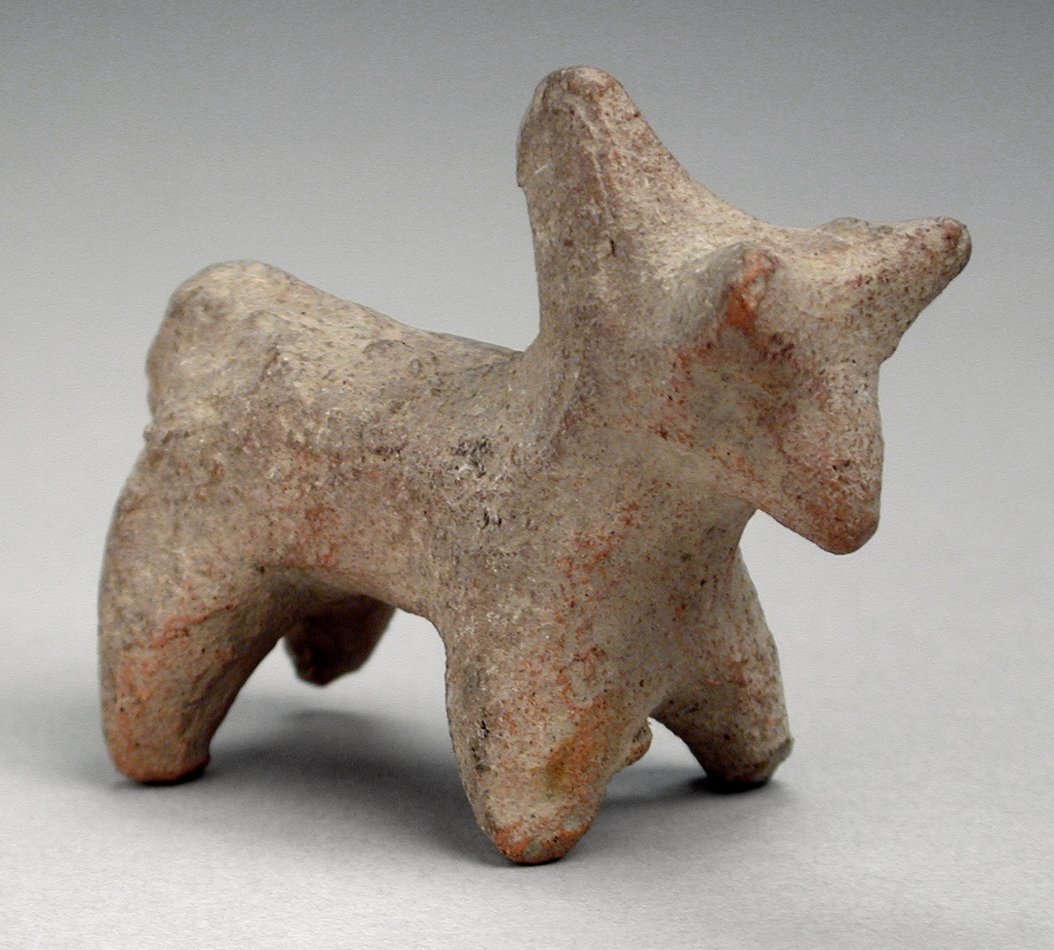 Pakistan, Kot Diji region (?), Circa 2800-2600 BC Sculpture Terracotta with traces of paint 1 13/16 x 2 3/8 x 1 3/16 in. (4.45 x 6.03 x 2.86 cm) Gift of Andrew Hale and Kate Fitz Gibbon (AC1992.214.29) South and Southeast Asian Art